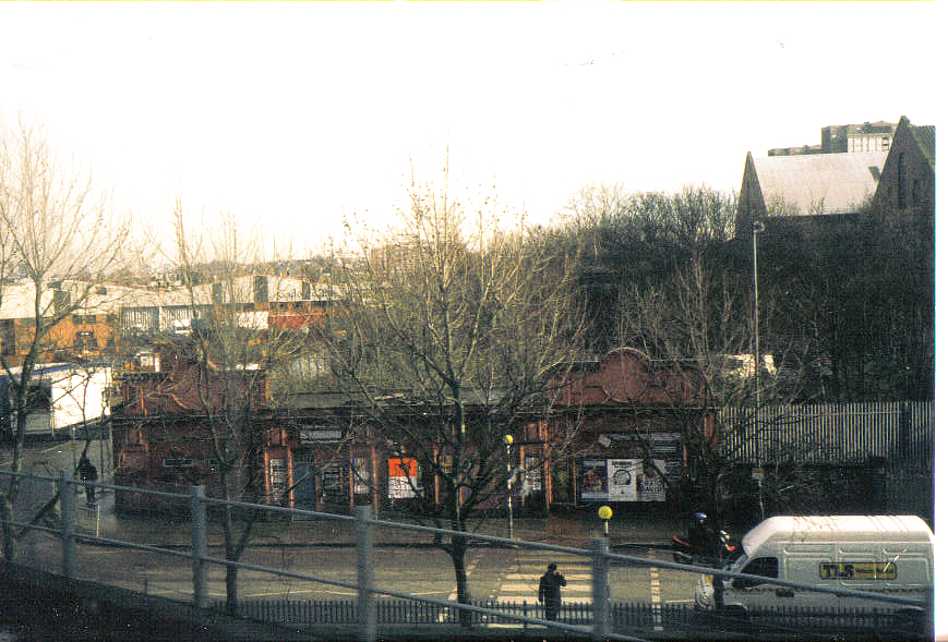 Wood Lane (Central line) tube station in 2001. It closed decades earlier and laid in ruins. It is now a bus station and shops.